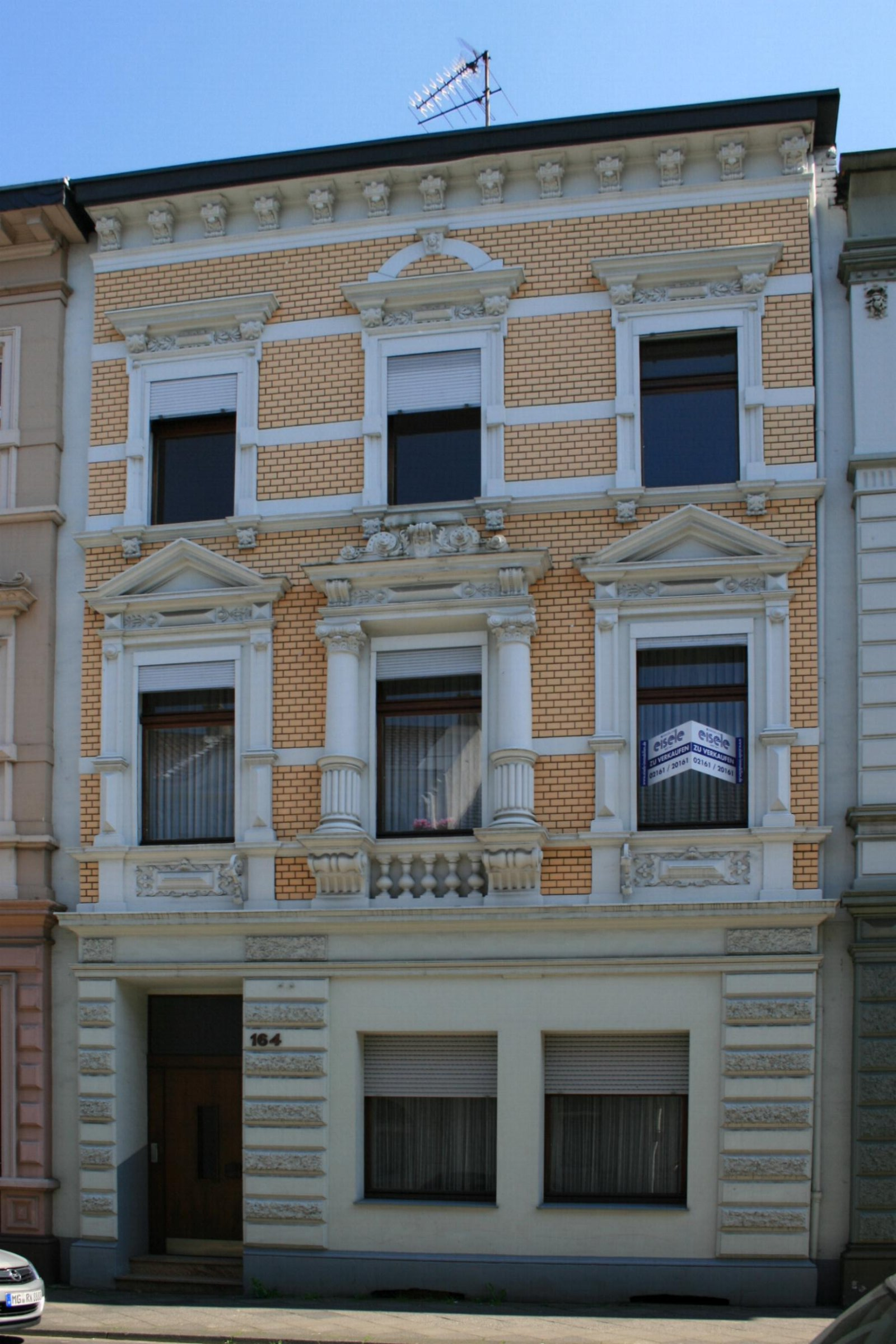 Cultural heritage monument No. R 069 in Mönchengladbach